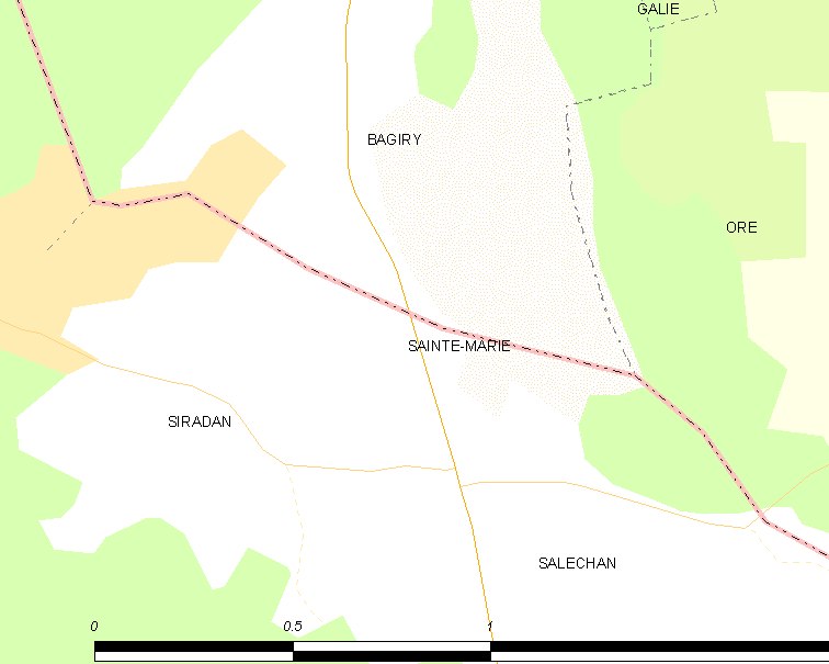 Map of French municipality